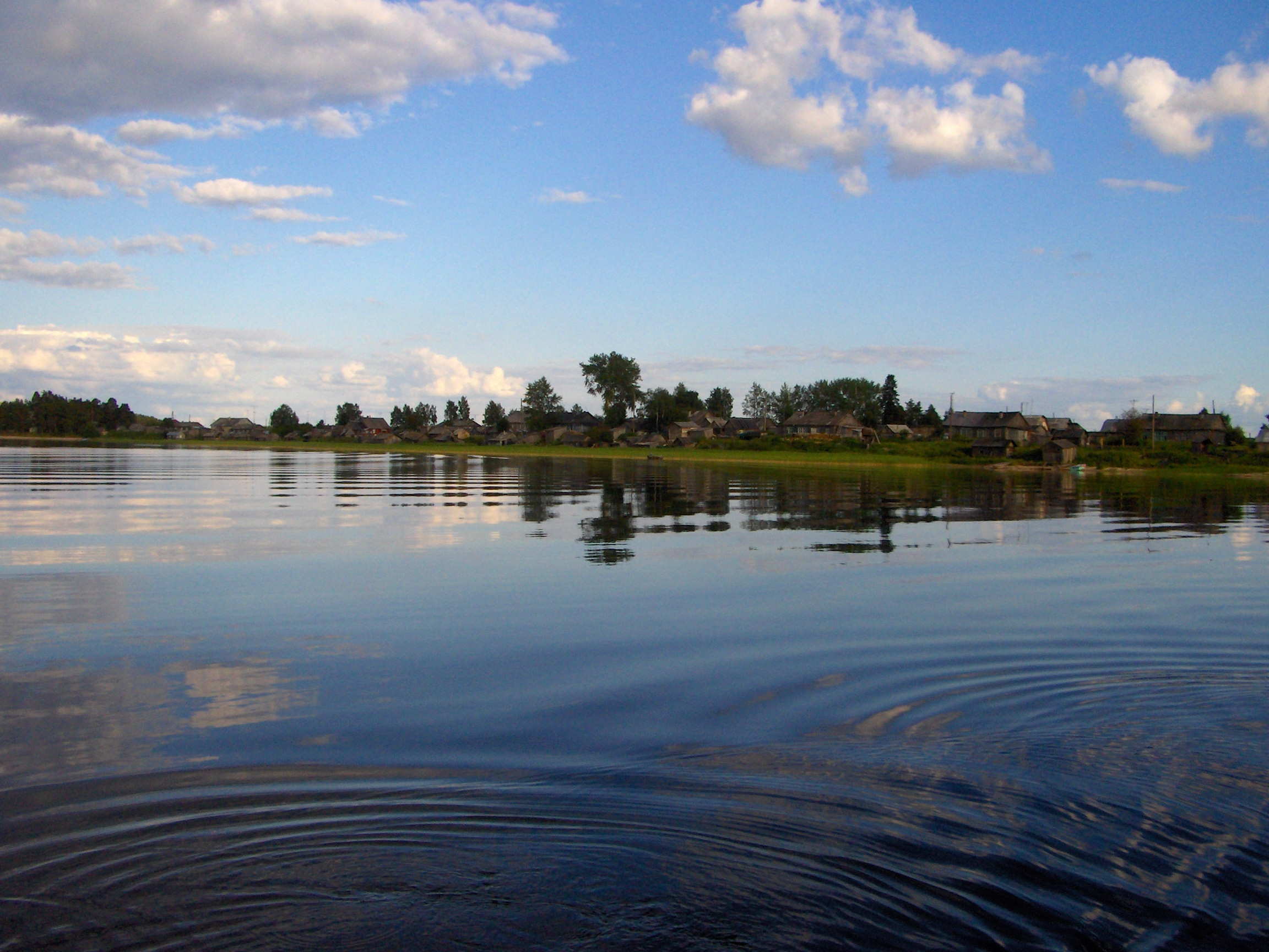 Lieksajärvi Lake Shore at Repola, Republic of Karelia, Russia